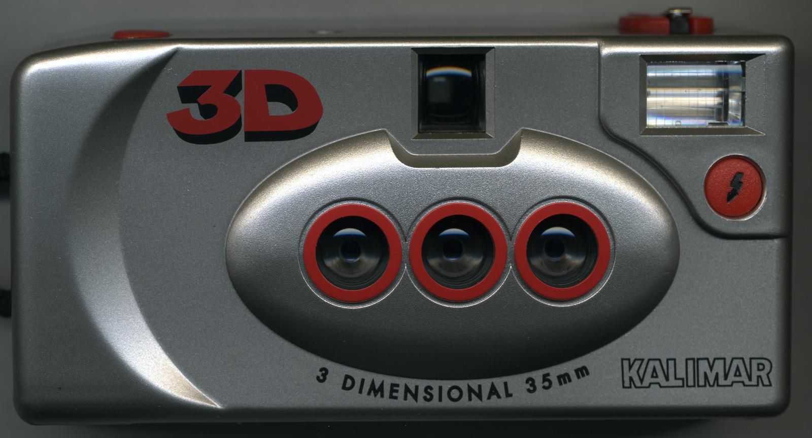 The Kalimar camera, a 3 lens Nismlo "clone".